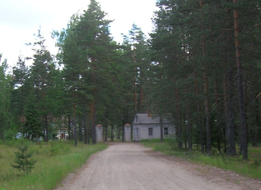 Zelezo 3